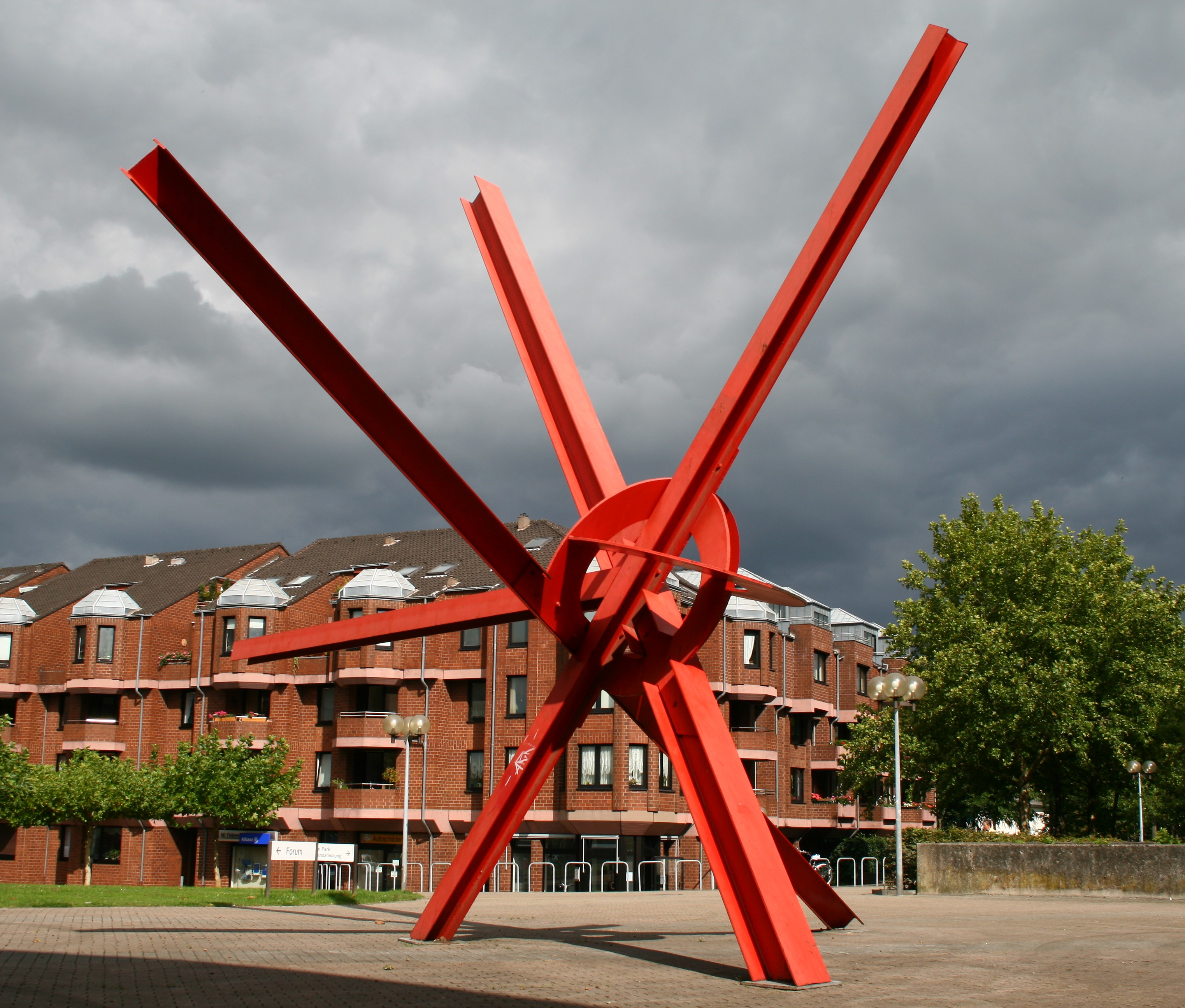 "New Star" (Mark di Suvero, 1986-1987) in the public Sculpture Park of Viersen, Germany.